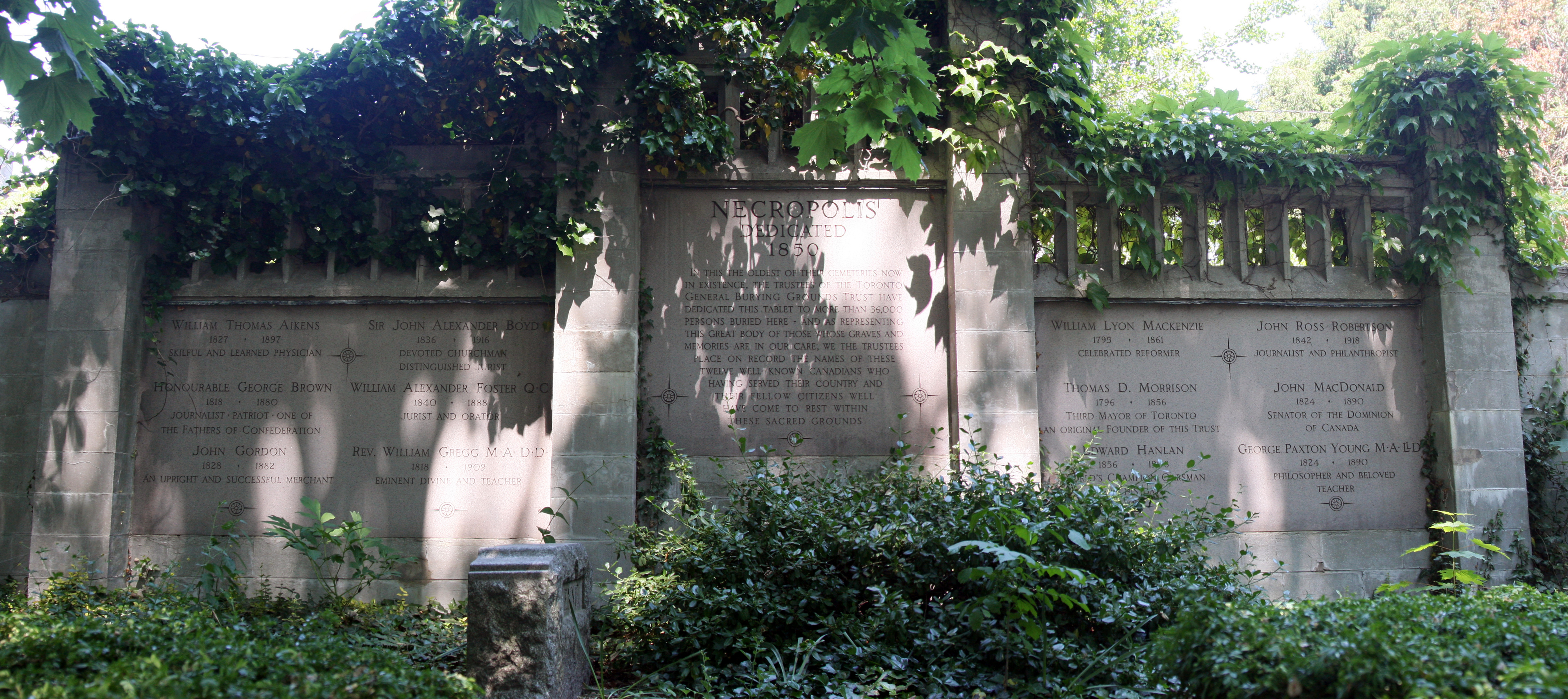 Necropolis Cemetery is a historic cemetery in Toronto, located on the west side of the Don Valley near Riverdale Farm. Opened in 1850 to replace "Strangers' Burying Ground" (or Potter's Field), the cemetery is the resting place for many dead Torontonians. The Necropolis is the final resting place of such prominent individuals as Toronto’s first mayor, William Lyon Mackenzie, journalist George Brown, founder of what is now The Globe and Mail, John Ross Robertson, founder of the Toronto Telegram, and, more recently, Federal NDP Leader, Jack Layton. Also buried here are Anderson Ruffin Abbot, the first Canadian-born black surgeon, and world-champion oarsman Ned Hanlan. In addition, the Necropolis contains a monument honoring Samuel Lount and Peter Matthews, hanged in 1838 for their roles in the Mackenzie Rebellion.